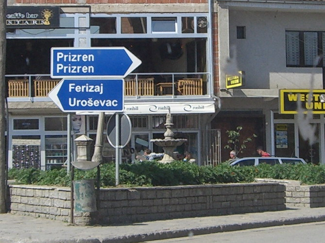 Shtime Muinicipality Center